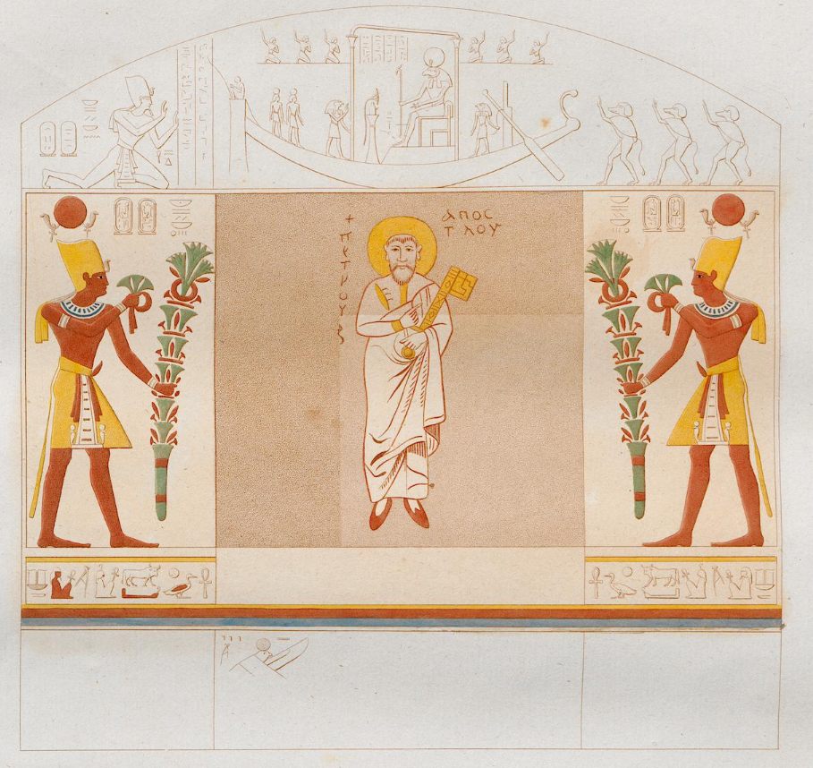 19th century copy of a late 7th/early 8th century painting from the Wadi es Sebua temple-church in Lower Nubia.